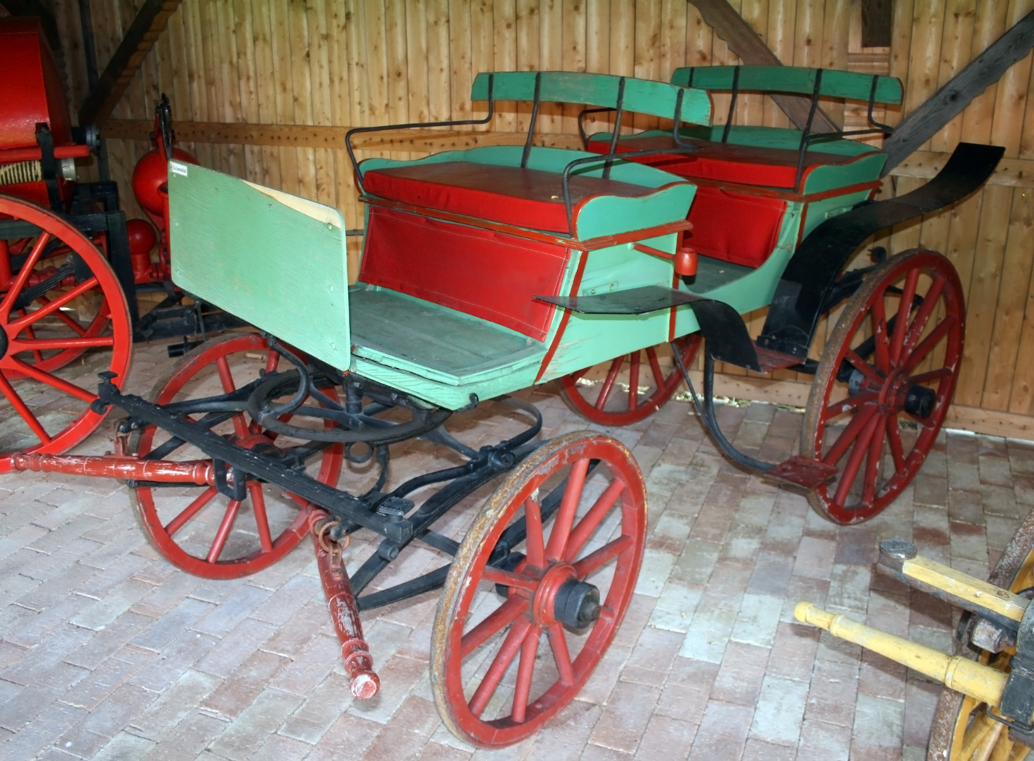 Small sand runner coach